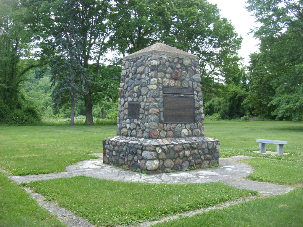 Monument on the Buffington Island Battlefield in southeastern Meigs County, Ohio, United States. The battlefield is listed on the National Register of Historic Places.